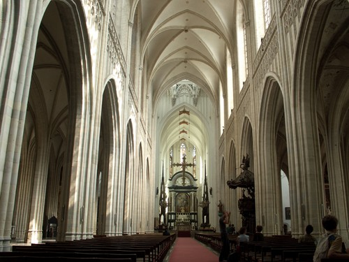 Catedral d'Anvers - Interior